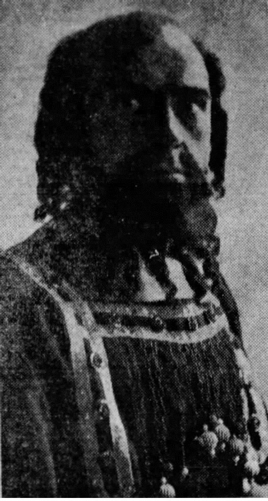 Portrait of Dante Testa playing the role of Karthalo the High Priest in the 1914 film Cabiria